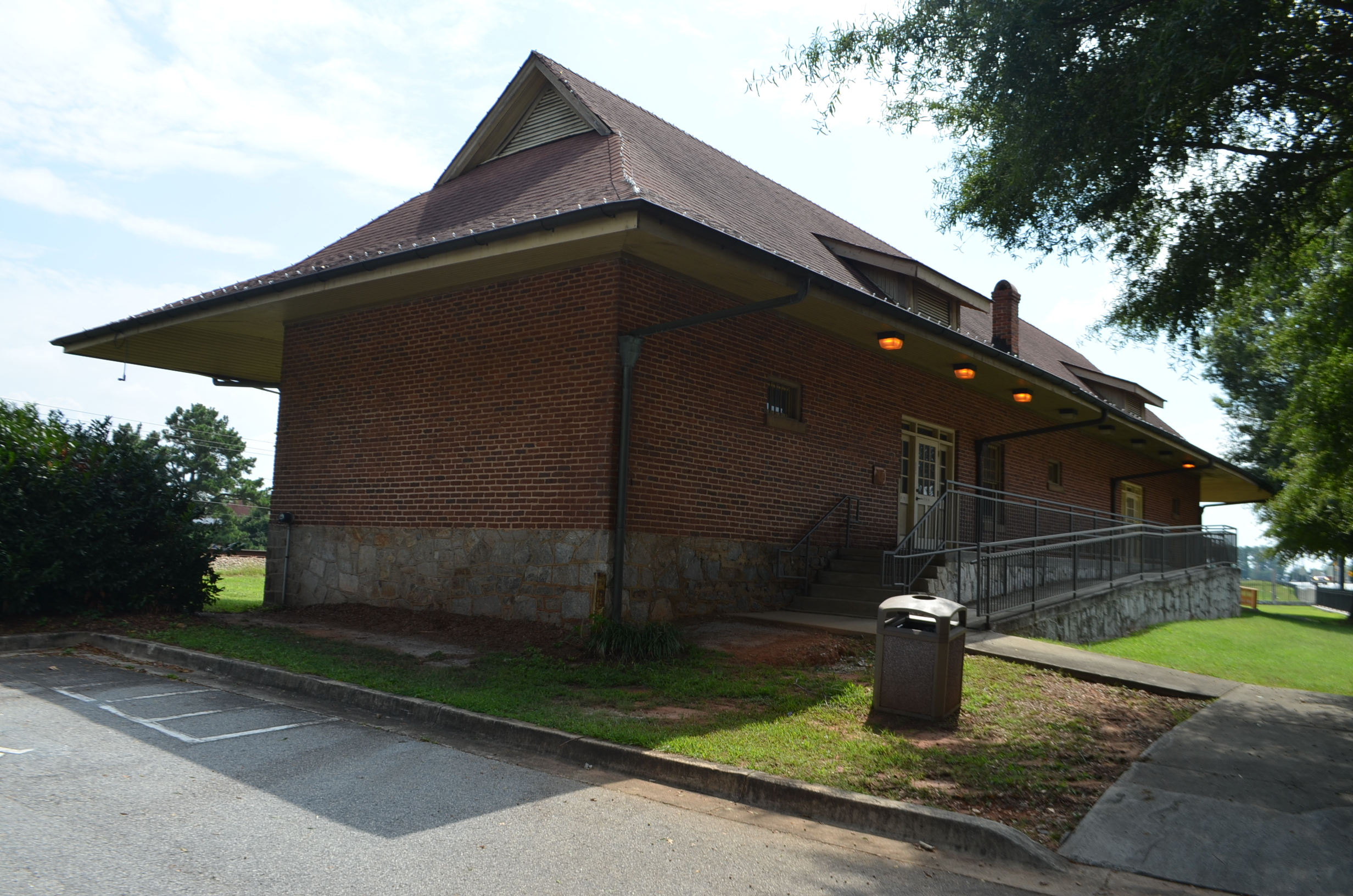 Fairburn Commercial Historic District, Roughly along W. Broad St. and RR tracks between Smith and Dood Sts. Fairburn